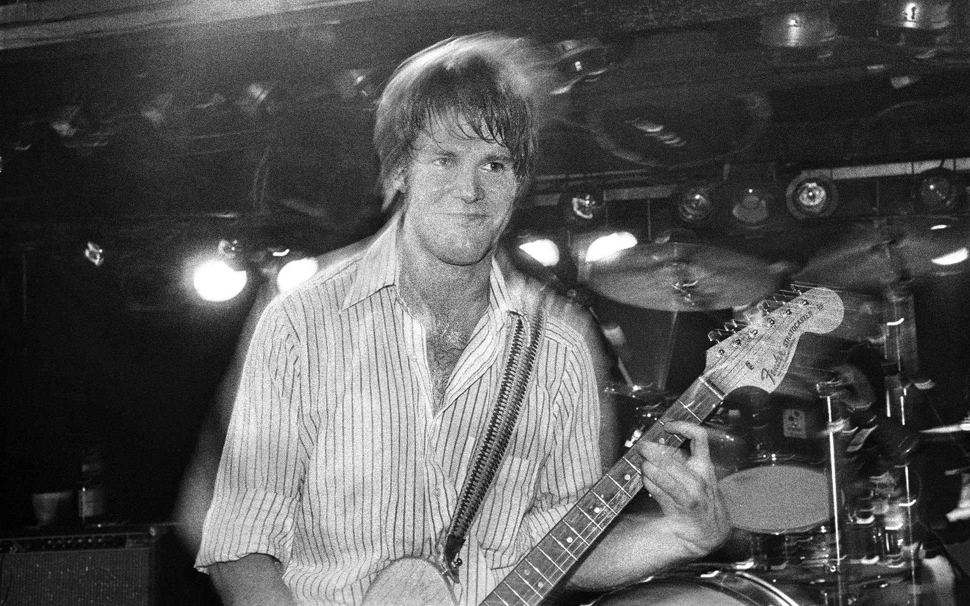 Kenny Chambers, guitarist and leader of the group “Moving Targets” playing on stage in Boston.